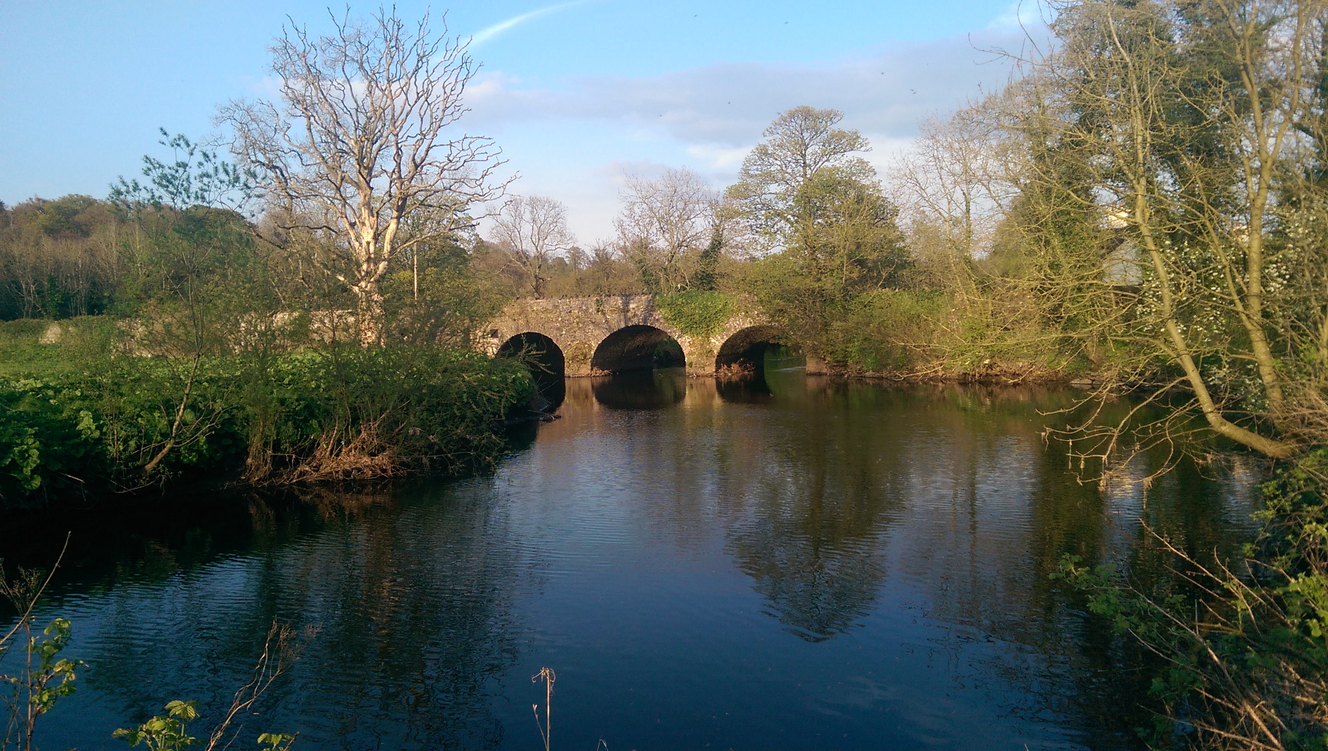 The River Lagan in Northern Ireland passing beneath an old three arched stone bridge at Drumbeg.